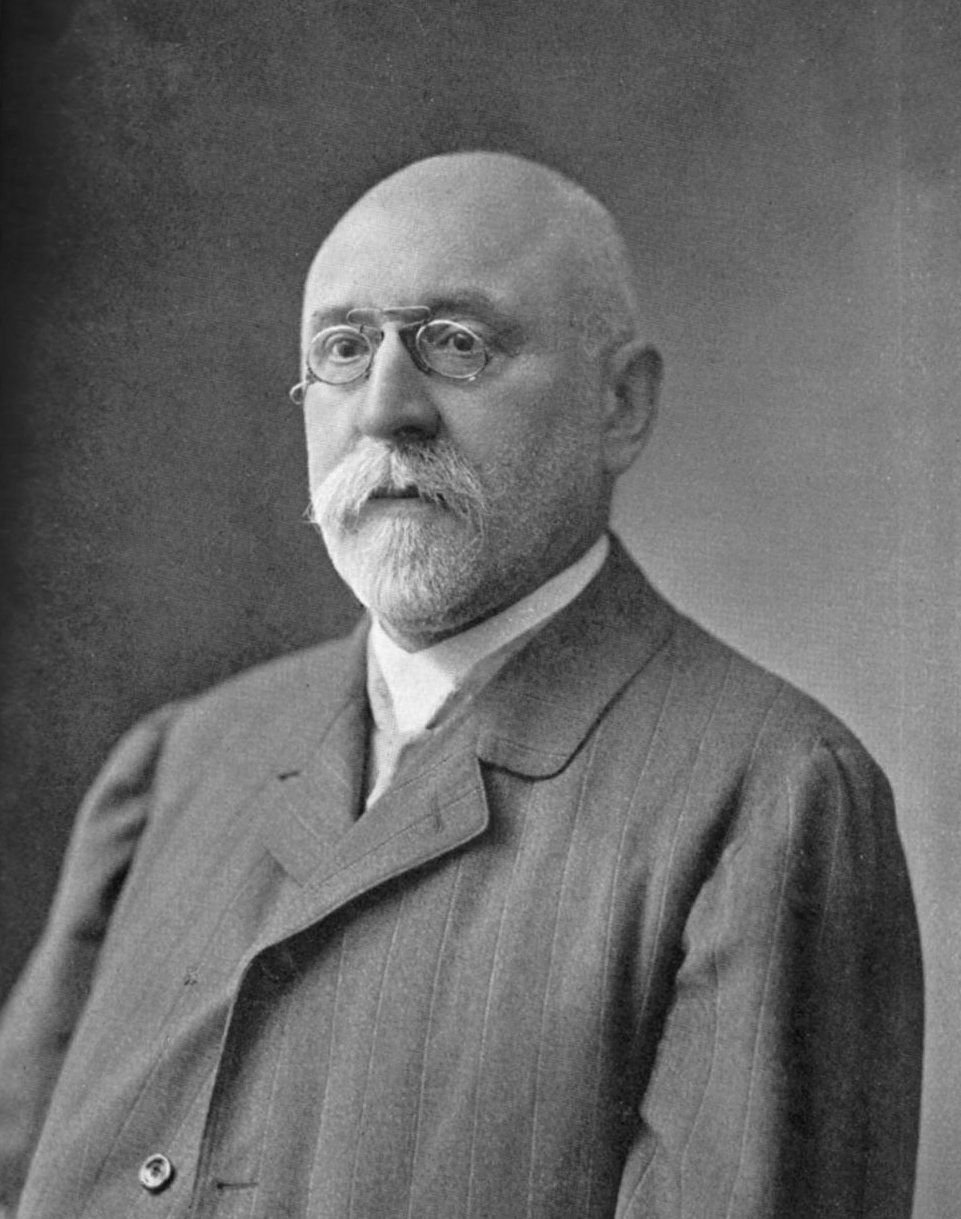 Czech physicist and scientist Vincenc Strouhal. Discoverer of the Strouhal number. Photograph first published in the Journal for Mathematics and Physics, Vol. 39 (1910), pp. 370-387. Public domain.